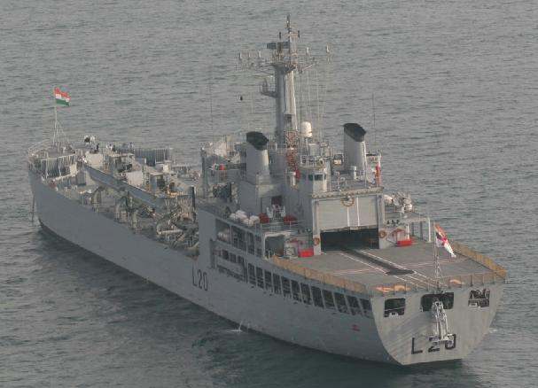 INS Magar (L20), lead ship of her class of amphibious assault ships of the Indian navy at Anchorage, USA